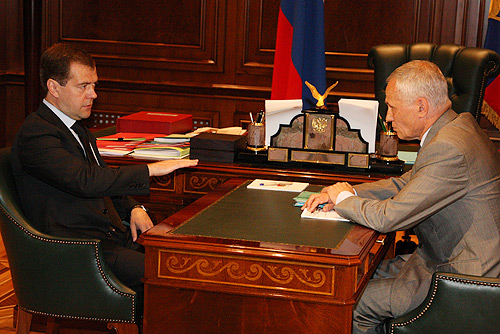 GORKI, MOSCOW REGION. With Plenipotentiary Presidential Envoy in the Volga Federal District Grigory Rapota.